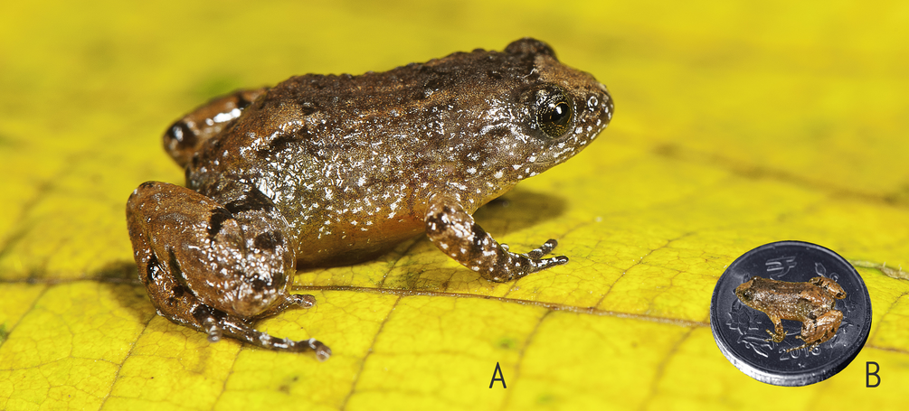 (A) Dorsolateral view, in life. (B) Size (SVL 13.8 mm) in comparison to the Indian five-rupee coin (24 mm diameter).